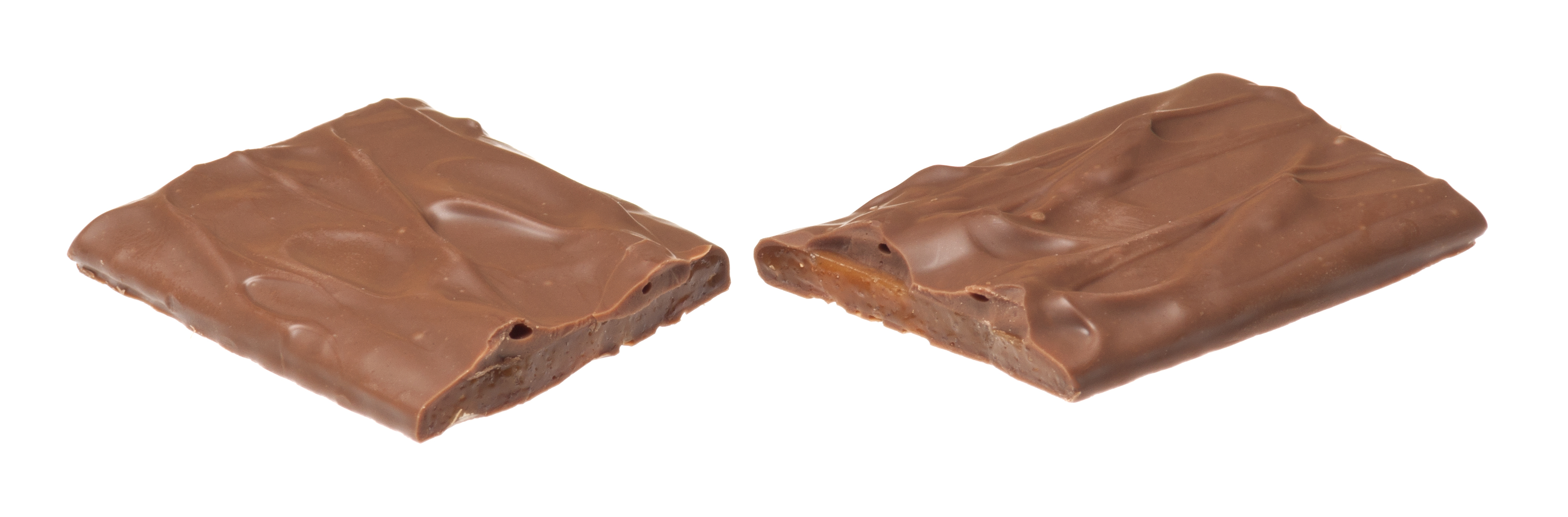 A Swedish Daim bar that has been split in half. Similar to a Skor or Heath bar.